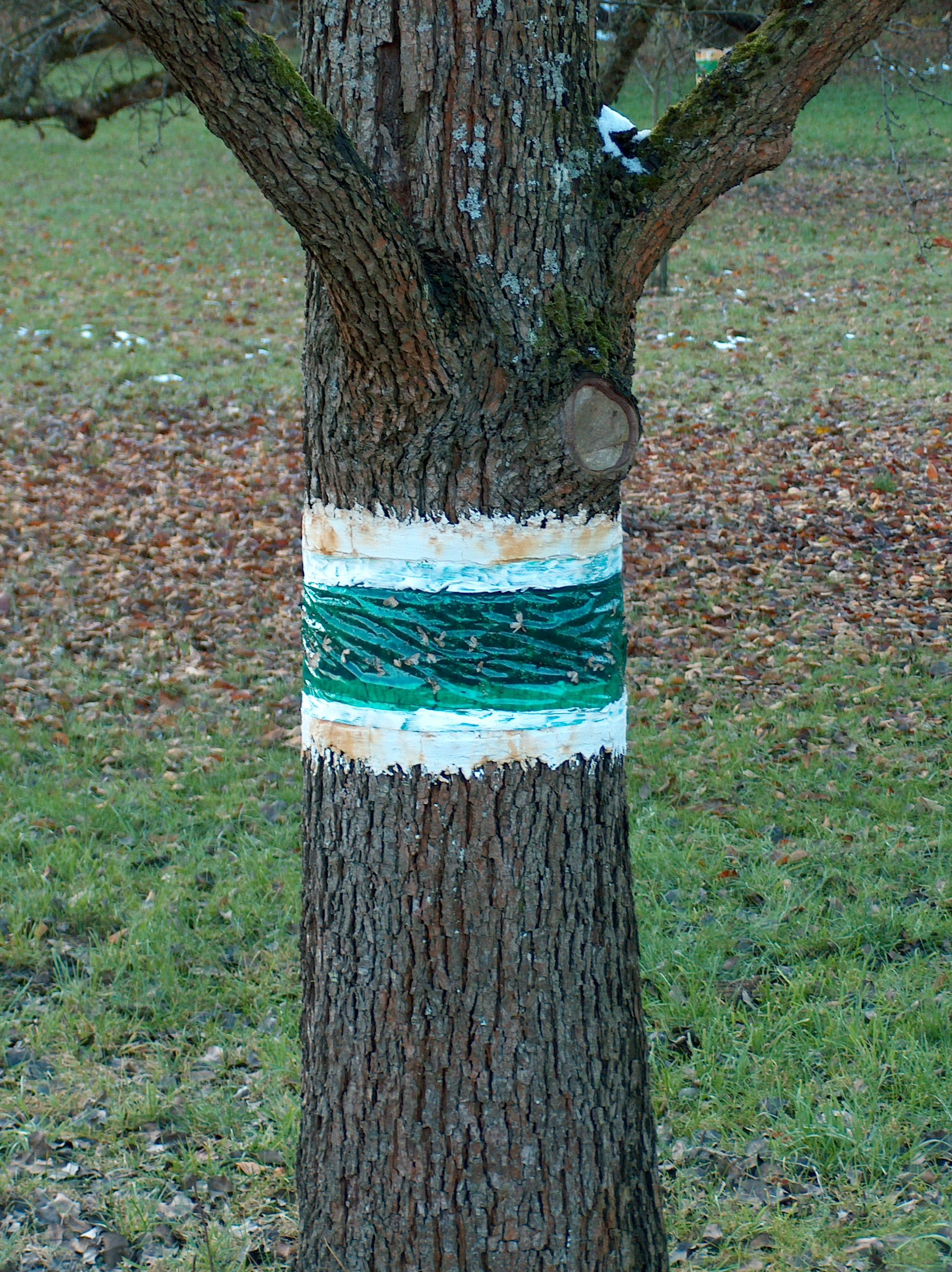 Glue ring on an apple tree